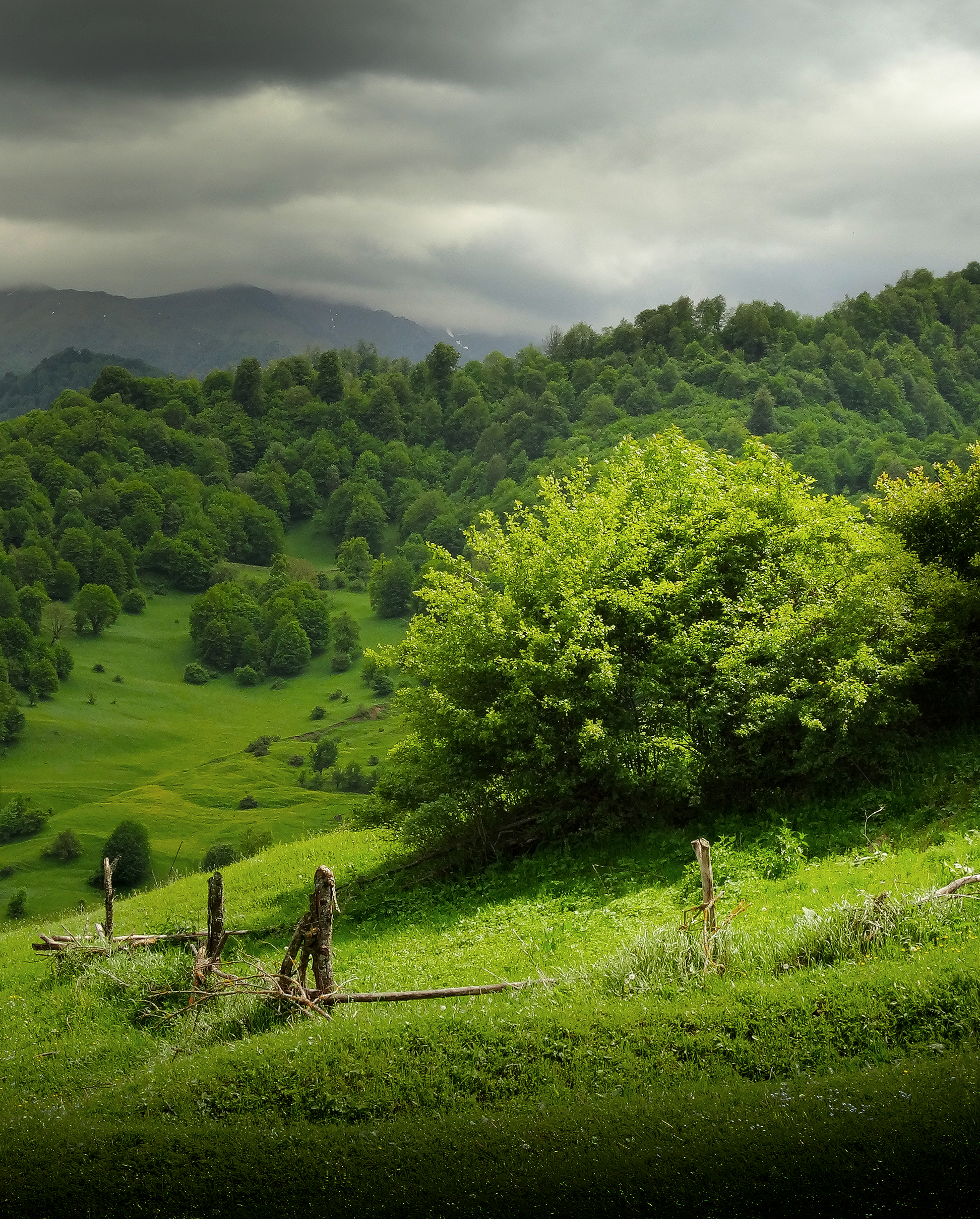 Nature of Dashkasan rayon, Azerbaijan